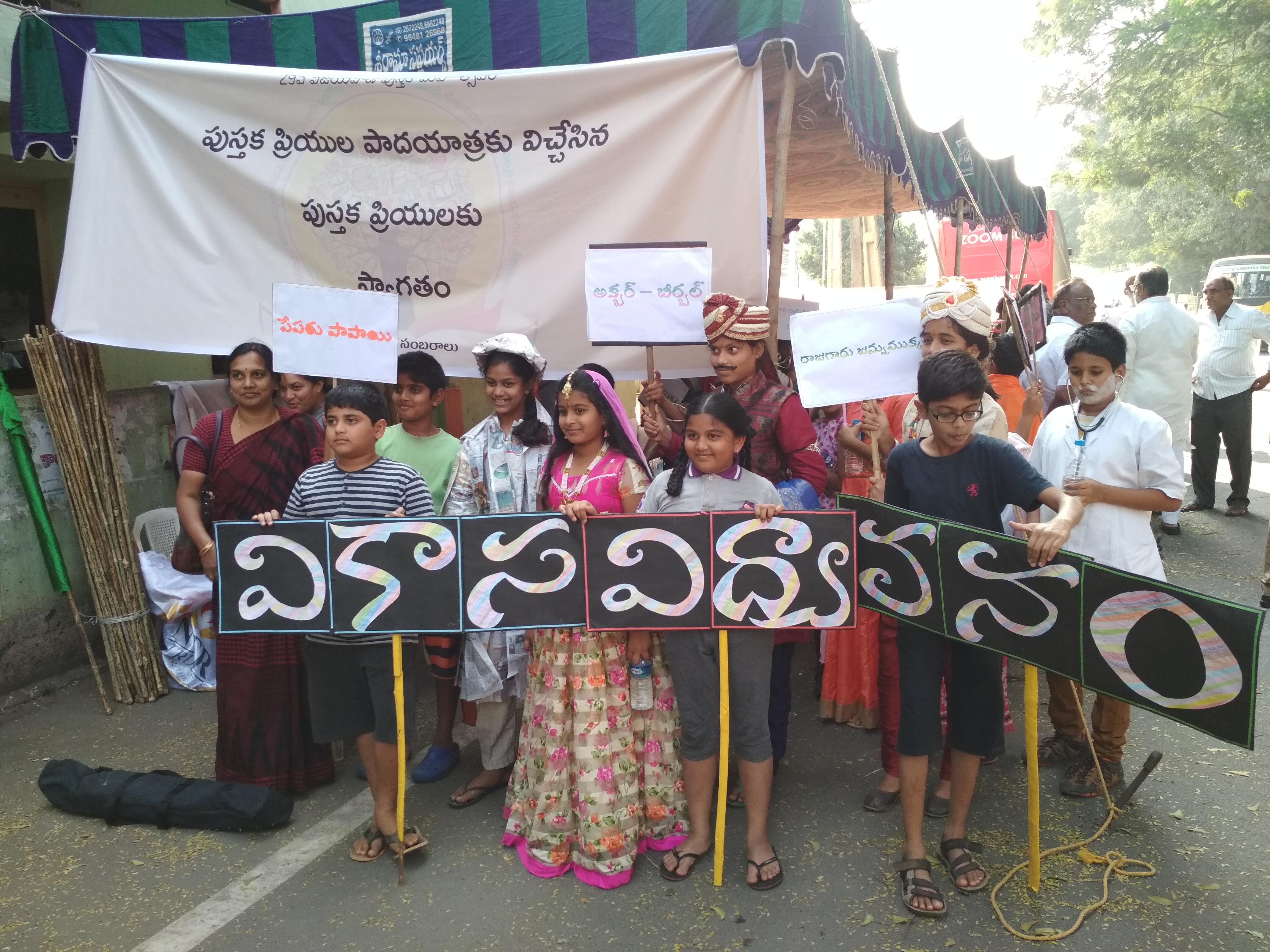 Walk for books, Vijayawada Book Festival